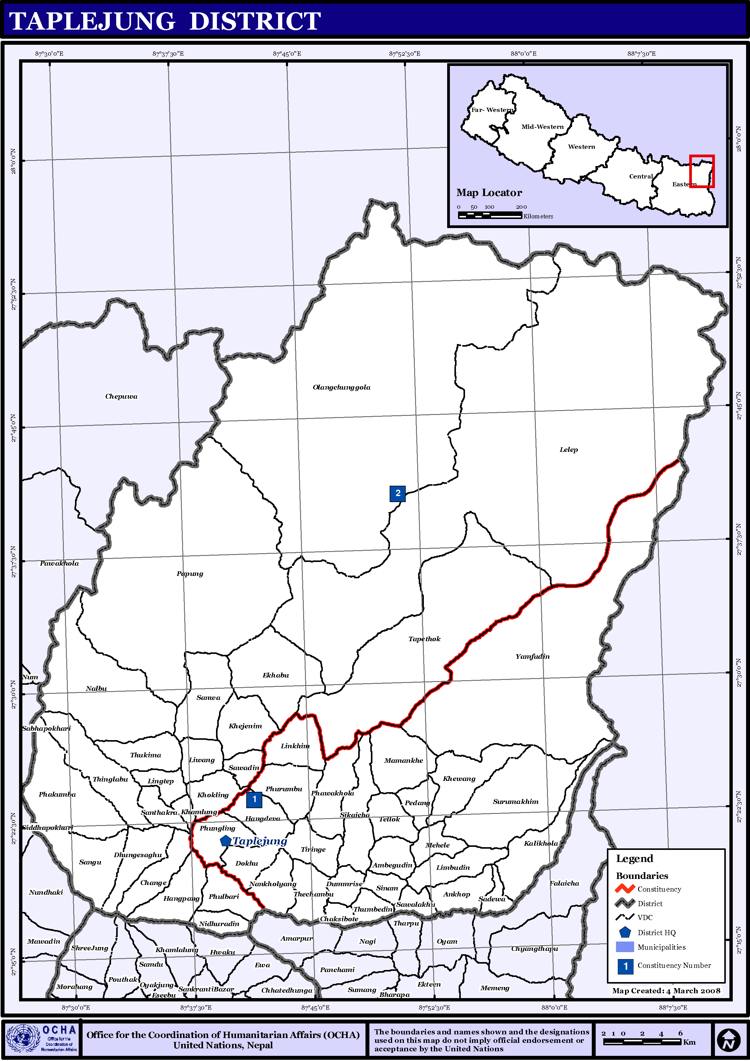 Map displaying Village Development Committees in Taplejung District, Nepal